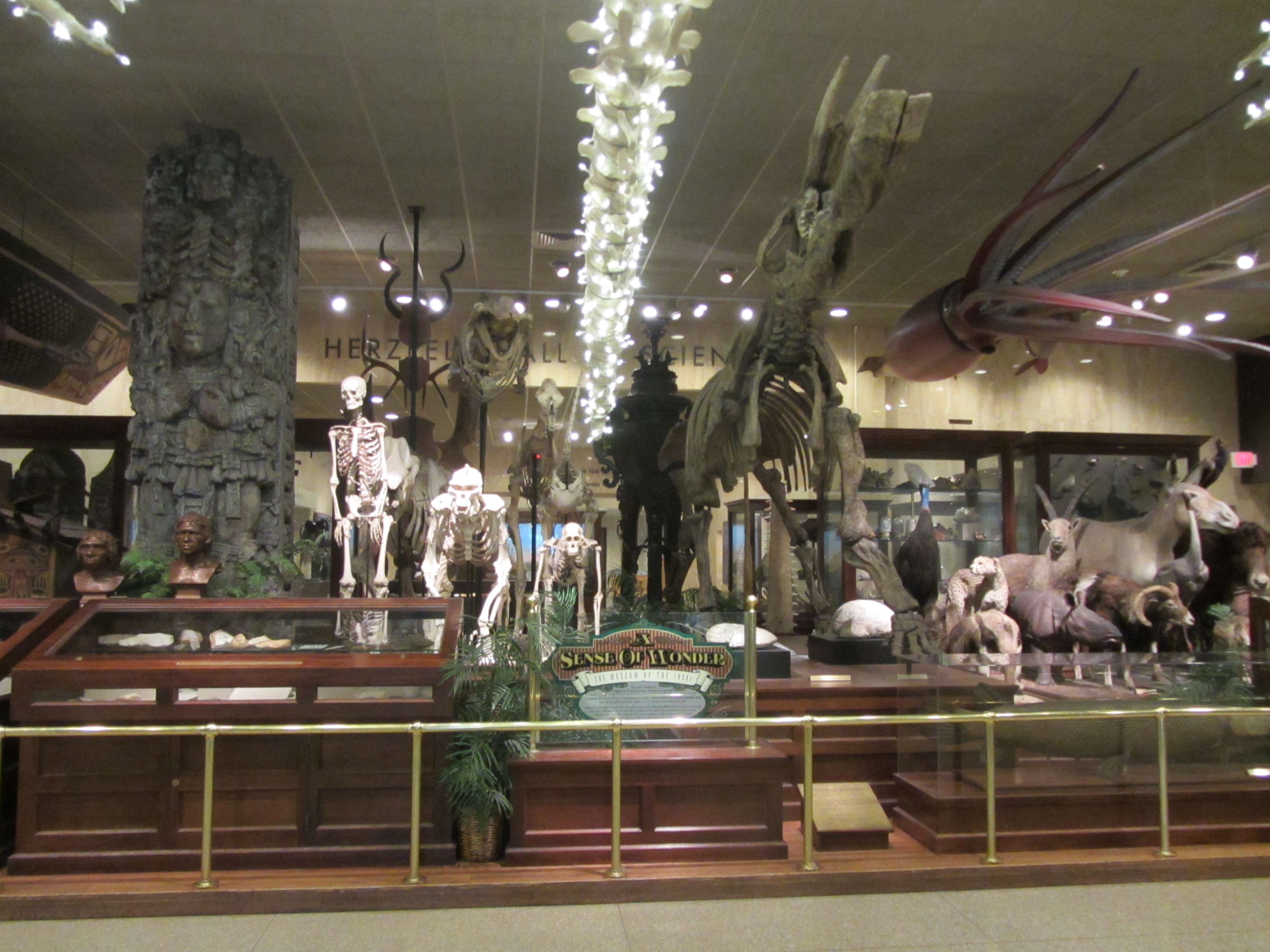 The museum's "A Sense of Wonder" exhibit, designed to look like the museum did in the 1890s.